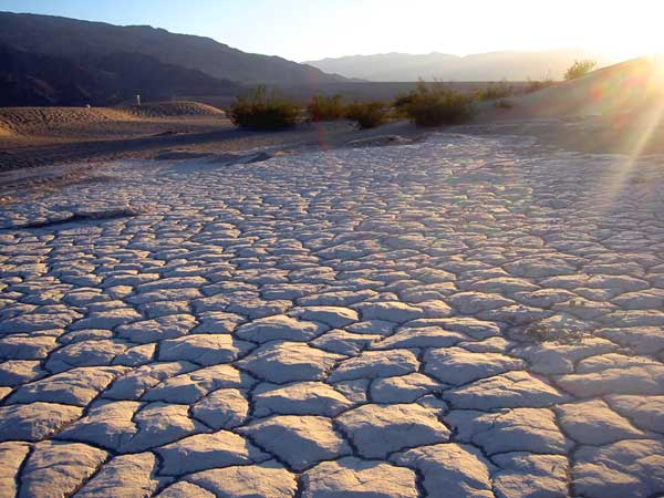 Sun-baked sand in Death Valley.